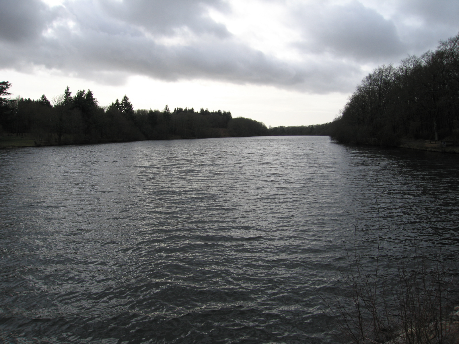 Lake of the vallée mabile, leisure site in Savenay, Loire-Atlantique, France